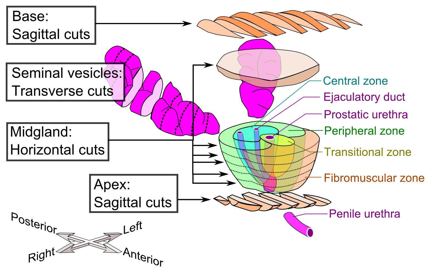 Prostate cutting for histopathology